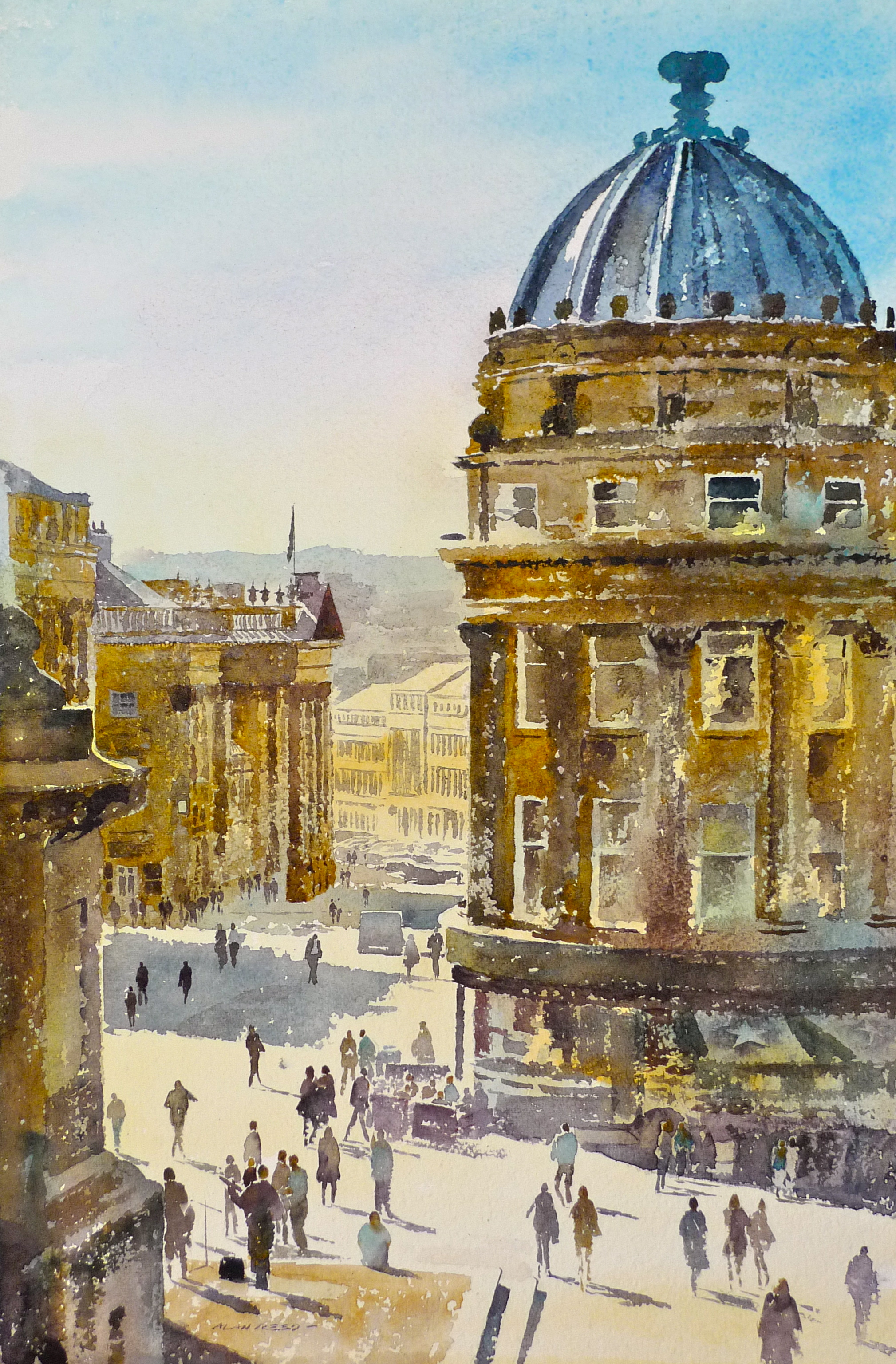 View from Emerson Chambers onto Grey Street, Newcastle